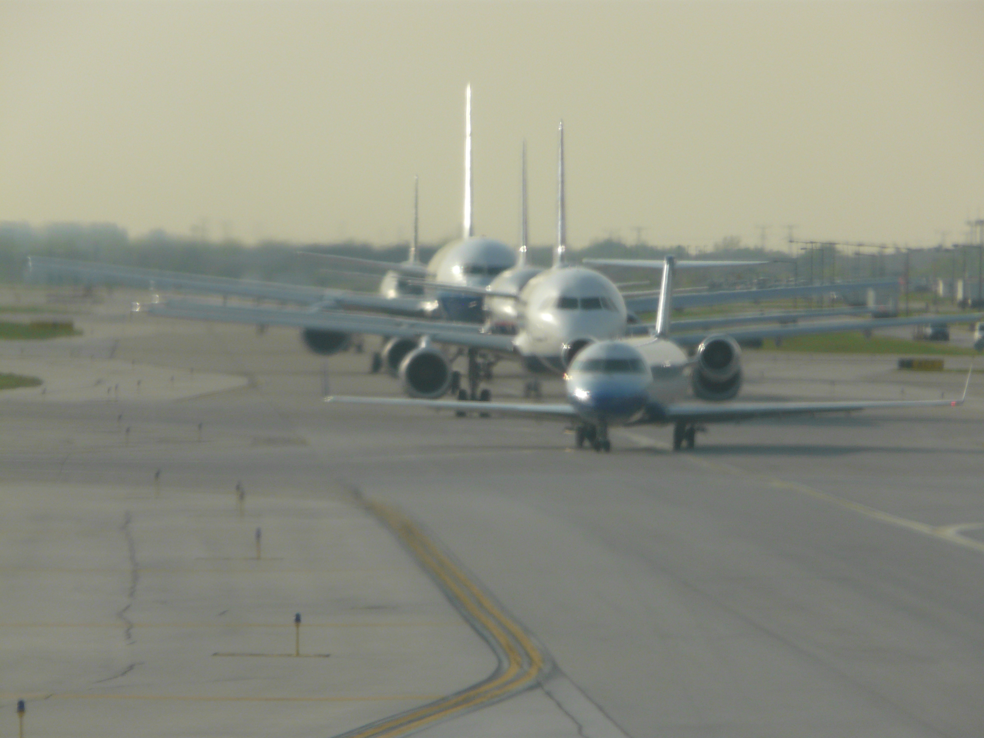 Aircrafts lined on taxiway.